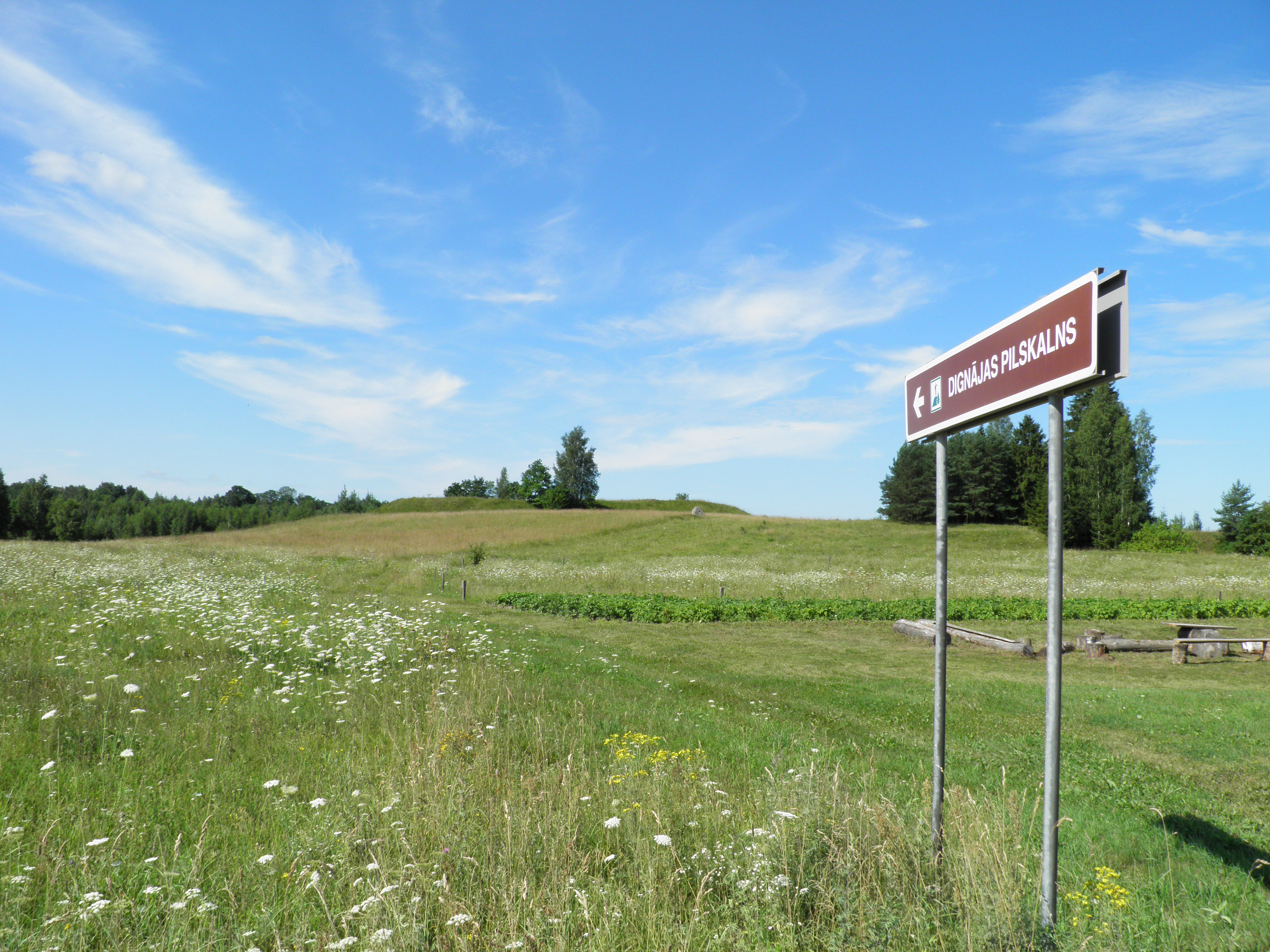 mountain